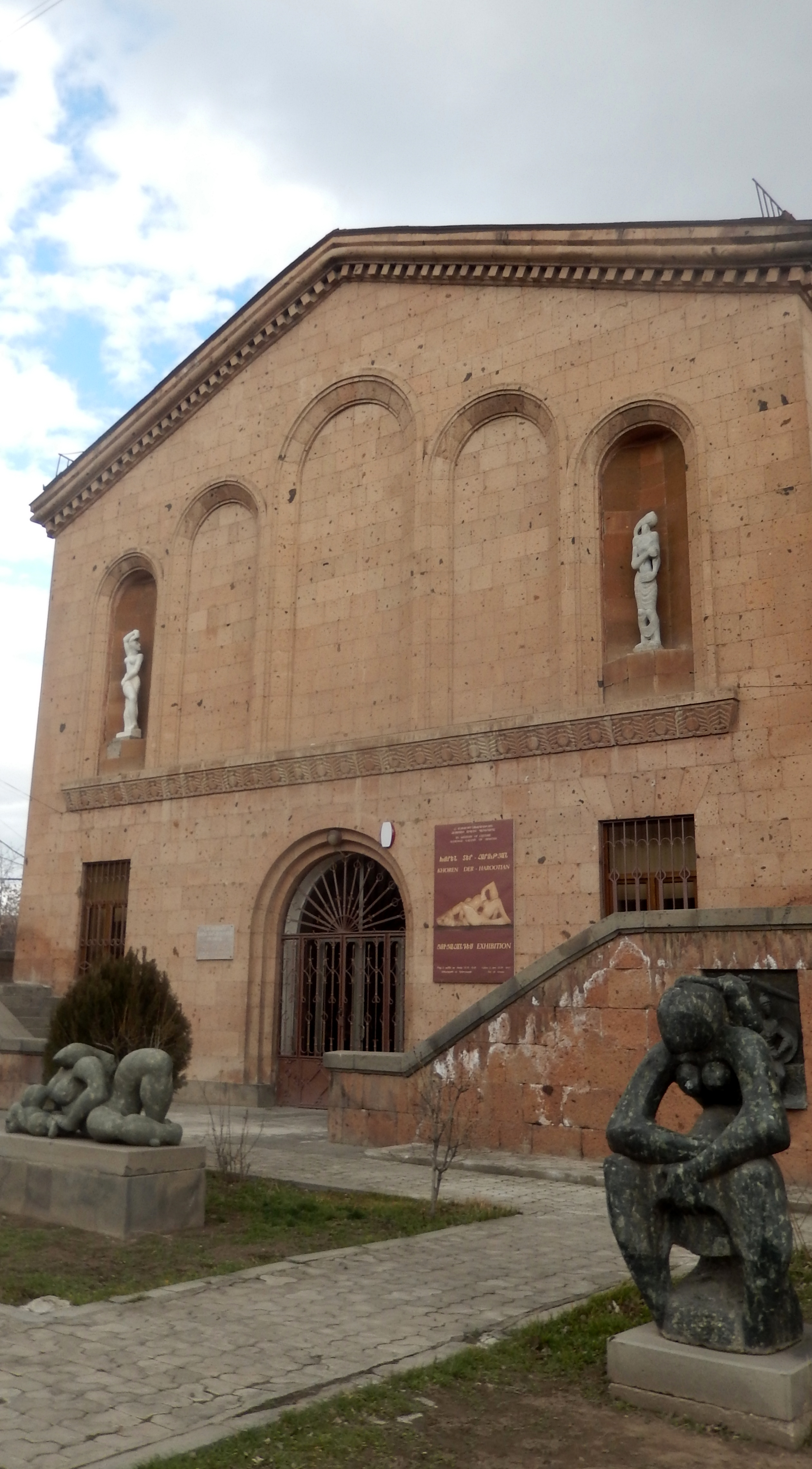 Khoren Ter Harutyan Museum in Echmiadzin